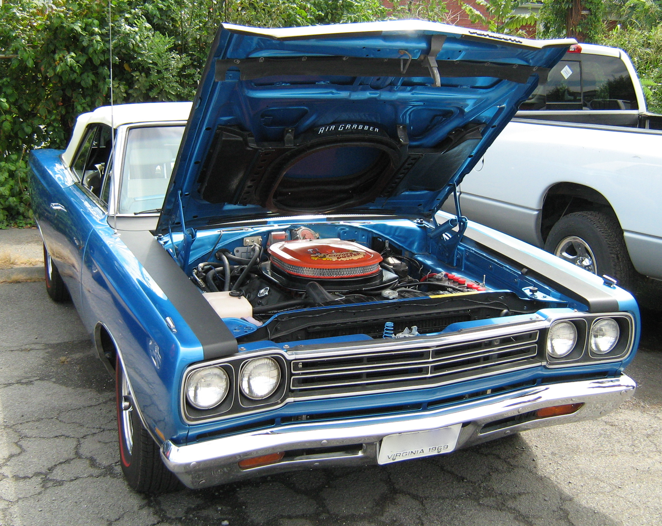 1969 Plymouth Road Runner - convertible. YES, this car has a Hemi engine!